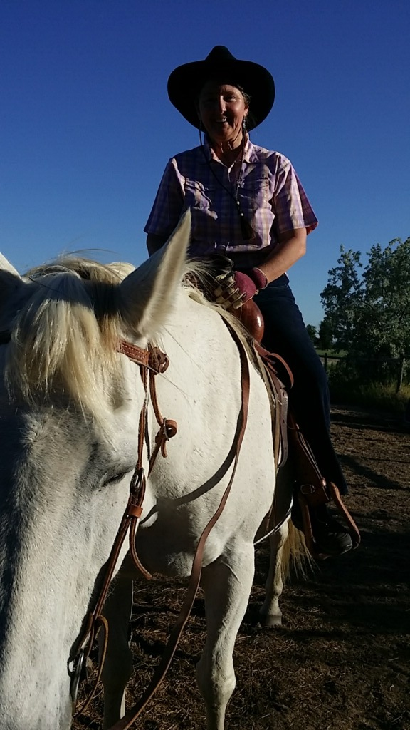 Jaquez Lewis riding a horse in San Luis Valley.